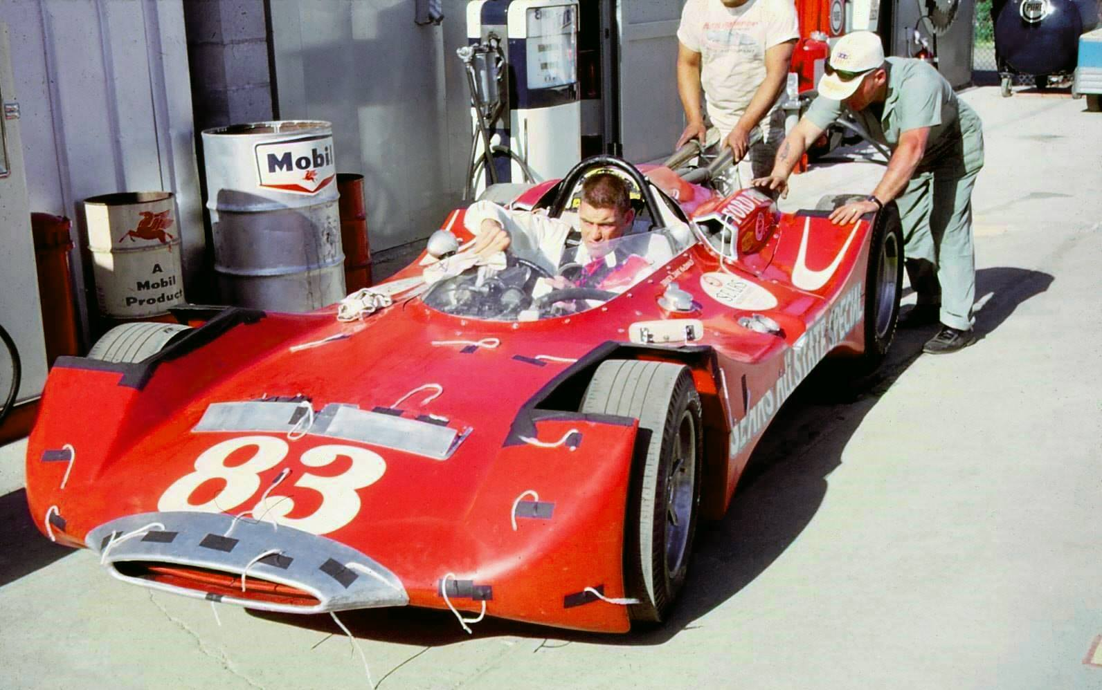 Photo of Dave MacDonald in Mickey Thompson's 1964 Indy car